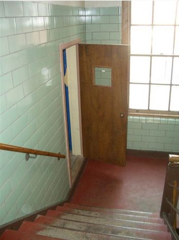 Photo of closet, used as isolation room, on basement stairwell at Old Harrington School, Lexington, MA. Additional photos at bottom of